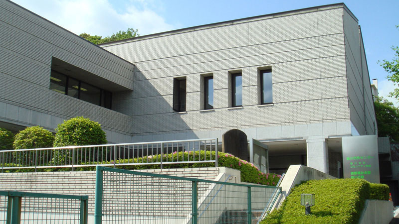 Citizens-Center at Tsurukawa, Machida, TOKYO